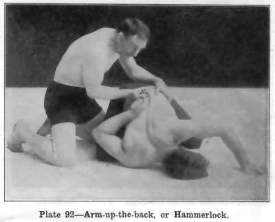 Hammerlock as illustrated the scan of Plate 92 in Lessons in Wrestling & Physical Culture.